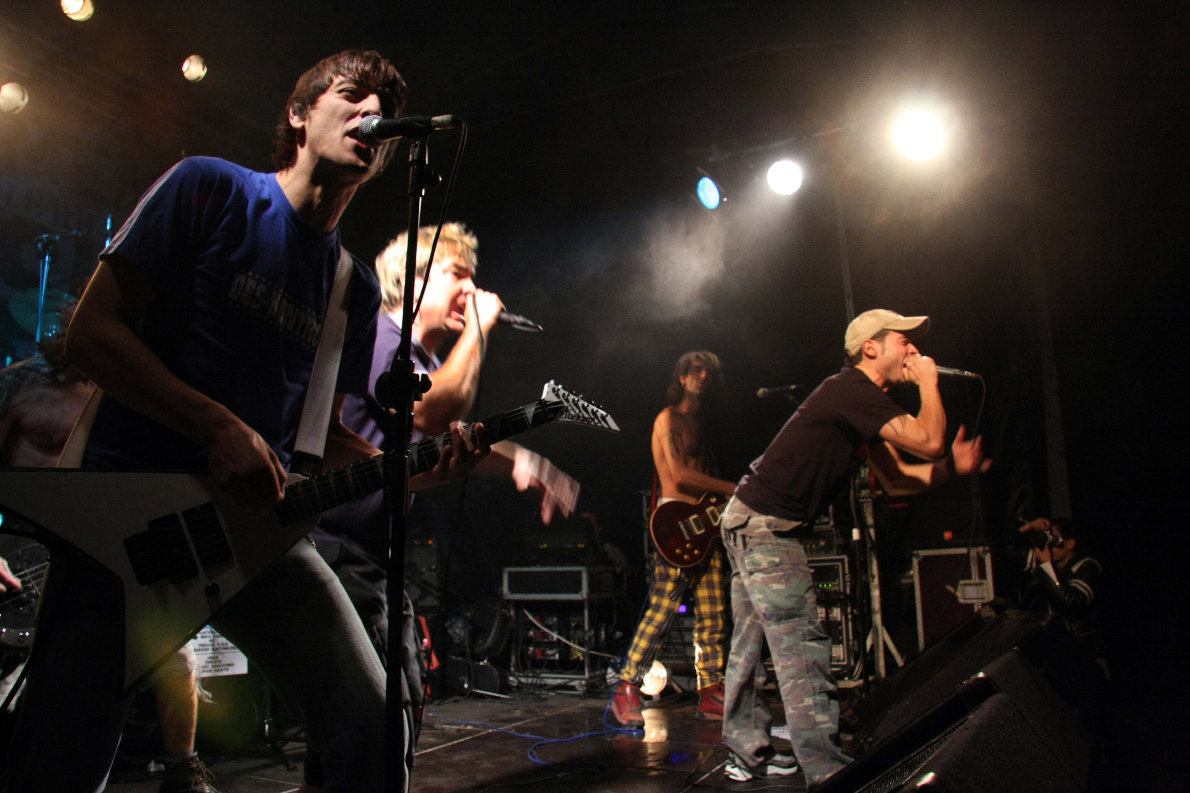 Etsaiak punk music band.